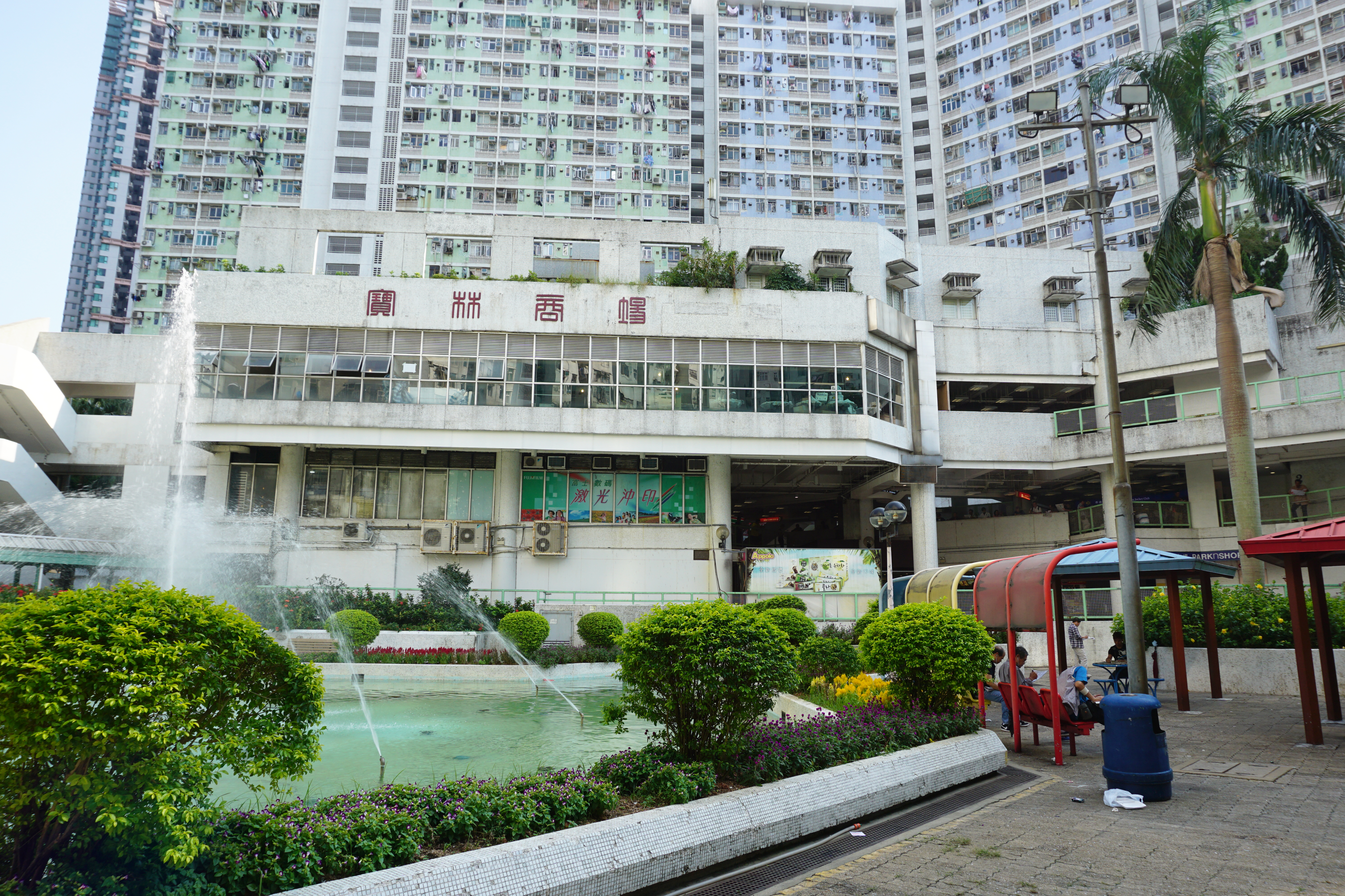 Po Lam Shopping Centre in Po Lam, Hong Kong.